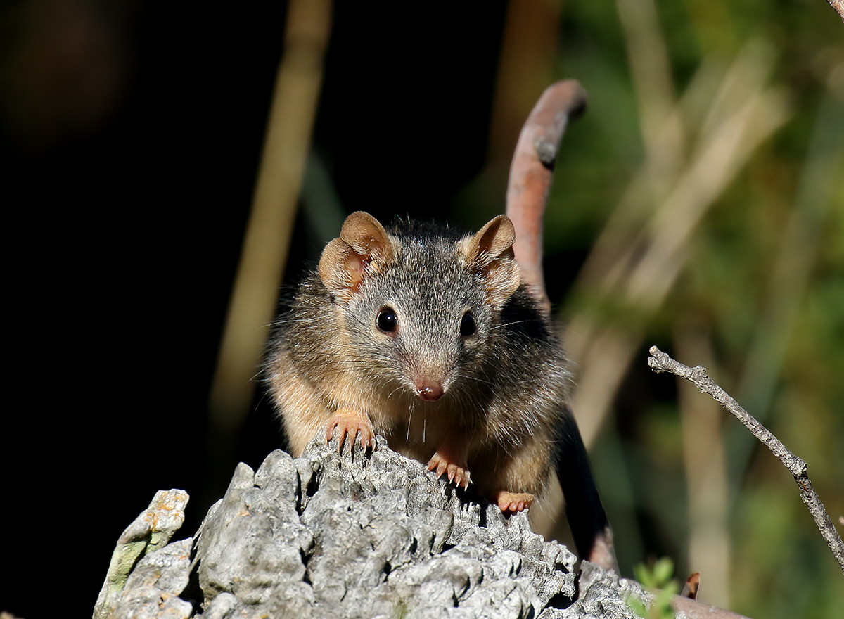 Crusoe Reservoir, Kangaroo Flat, Vic.